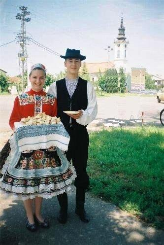 Folklore